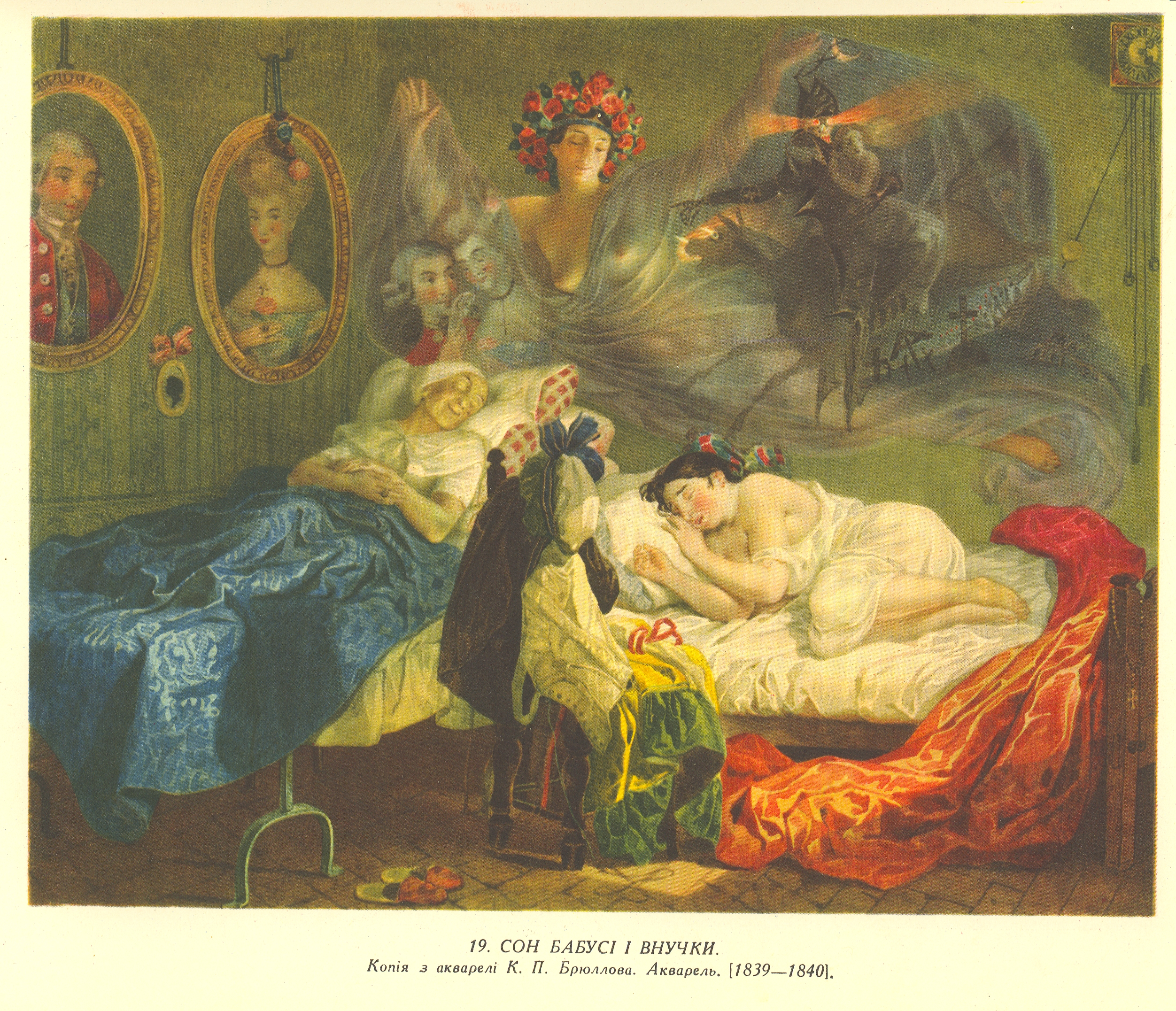 Painting of Taras Shevchenko